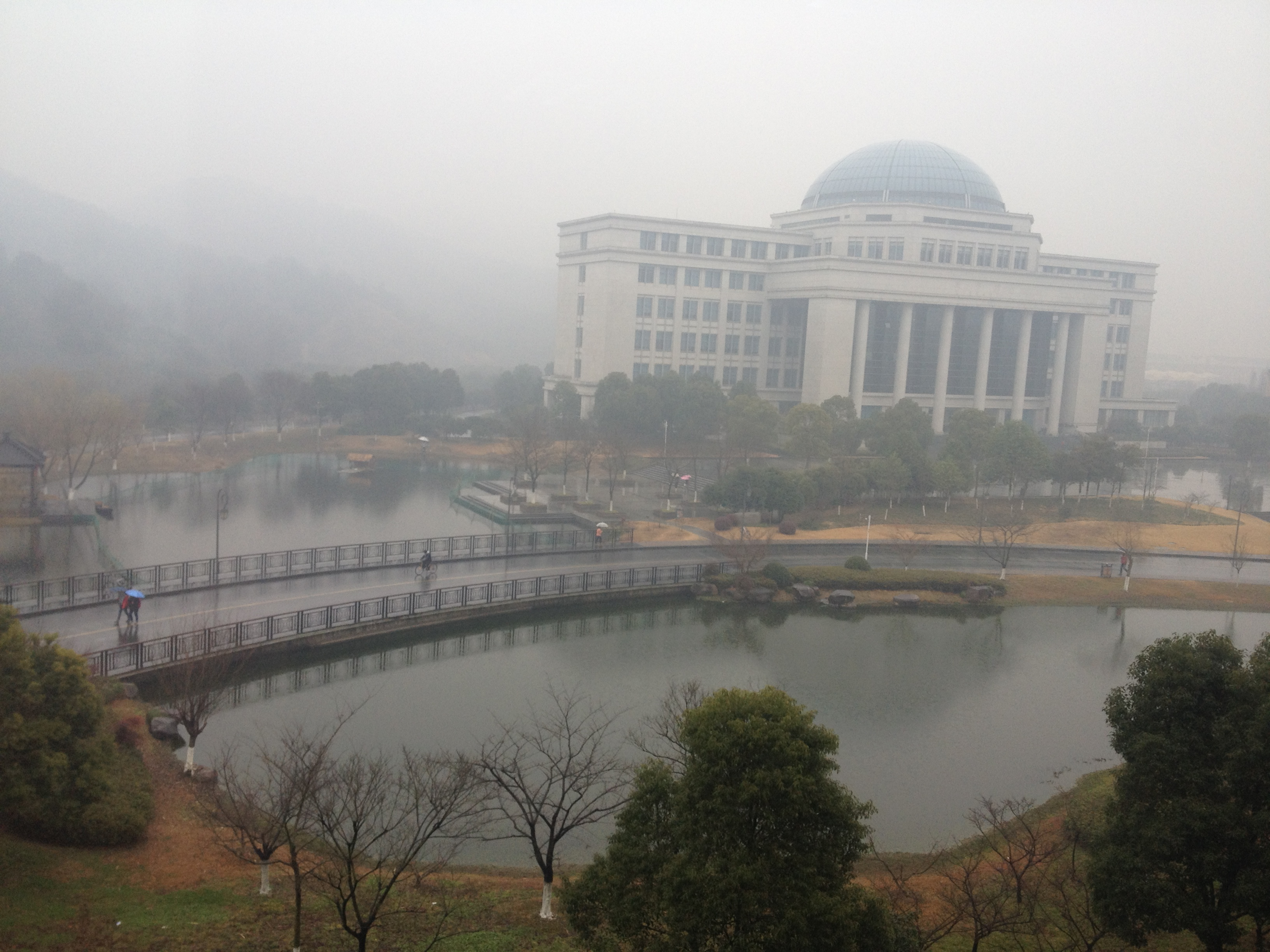 Aereal view of Campus Library and lagoon.